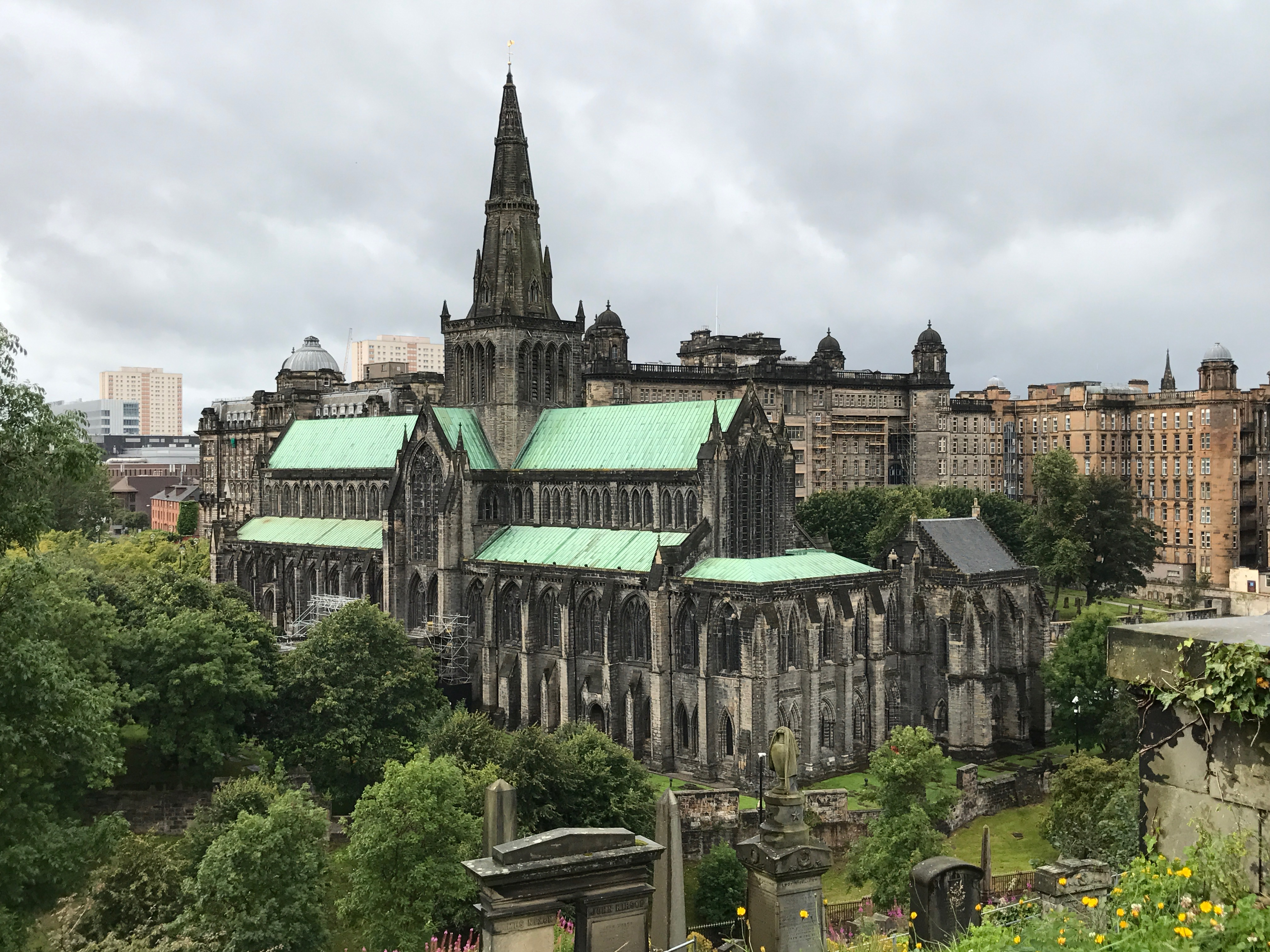 70 Cathedral Square, Cathedral Of St Mungo Wikidata has entry Q17567385 with data related to this item.